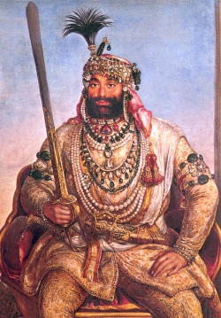 Painting made in Vienna, from preliminary study made in Lahore 1841.